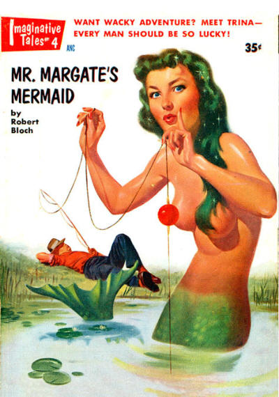 Cover of Imaginative Tales, March 1955